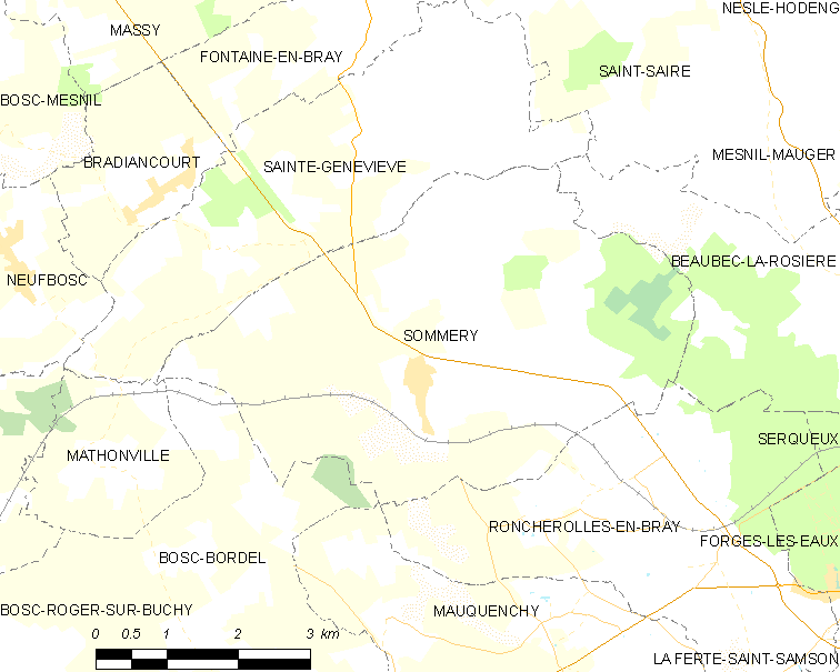 Map of French municipality Sommery